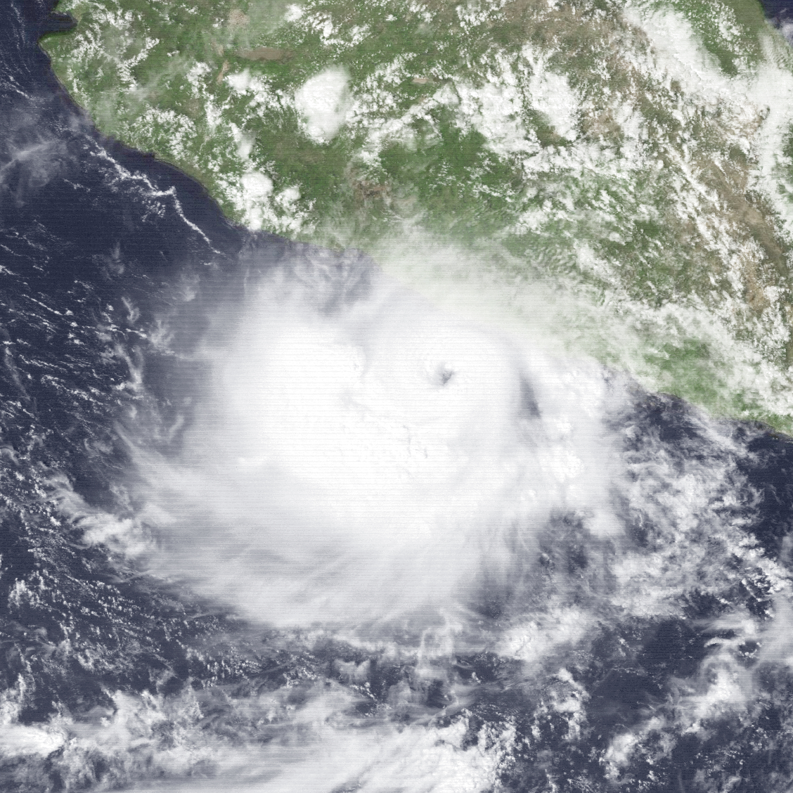 Hurricane Odile on September 21, 1984 at 20:00 UTC.